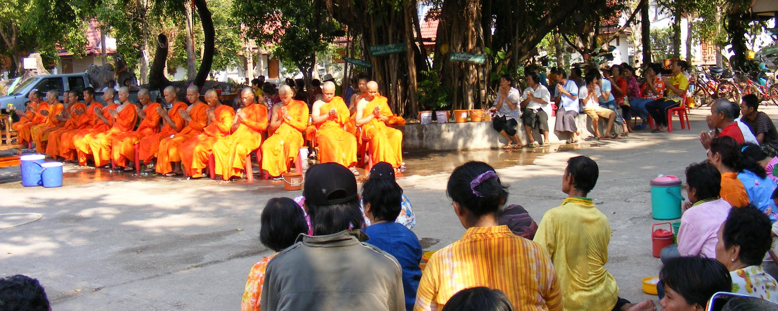 Songkran at Wat Kungthapao in Uttaradit, Thailand, April 2008